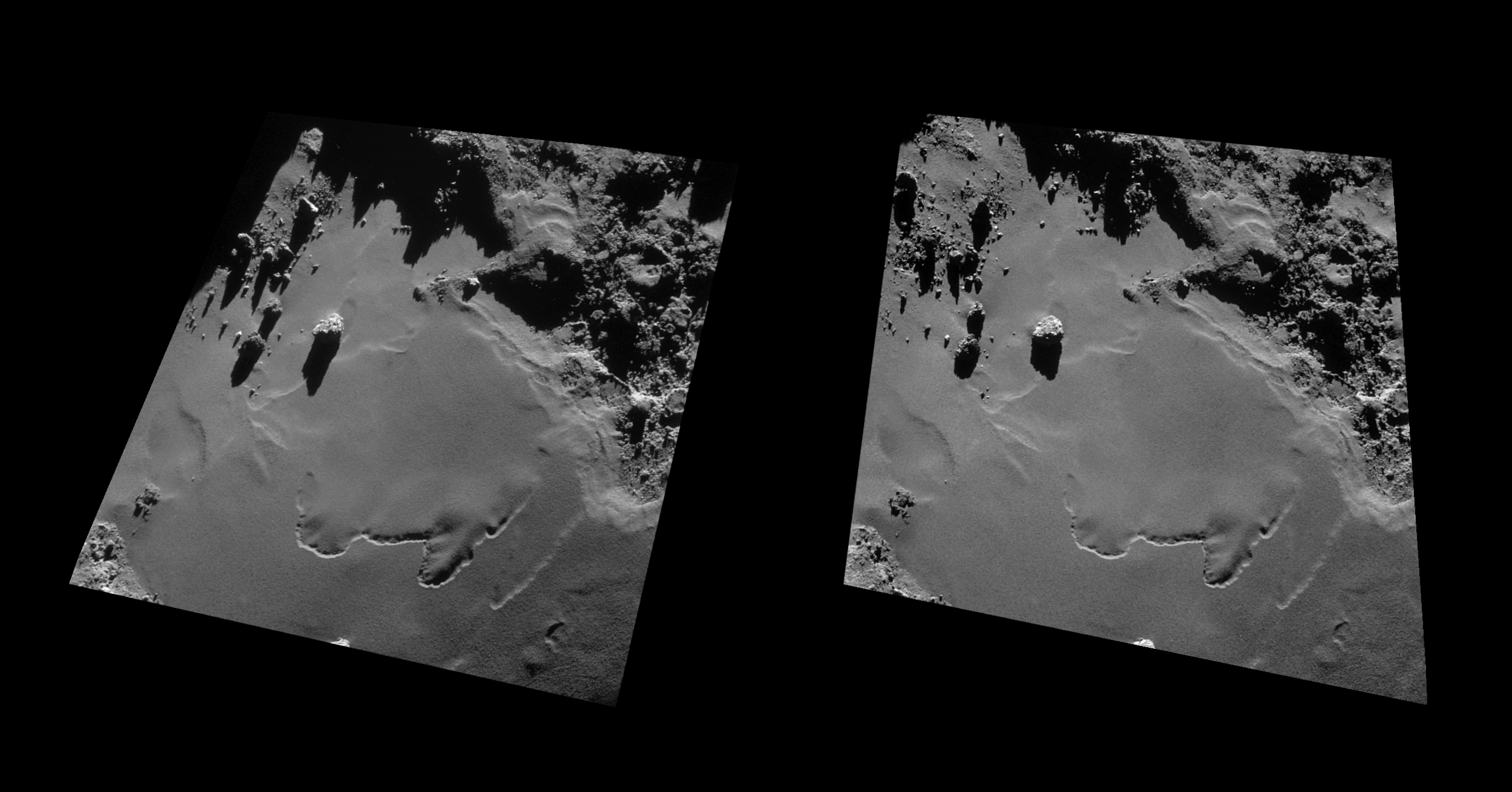 Resolution ~0.7 m/pix. Credit: ESA / Rosetta / NAVCAM, CC BY-SA IGO 3.0 / Daniel Macháček.